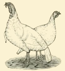 (Removed after reusableart request.)